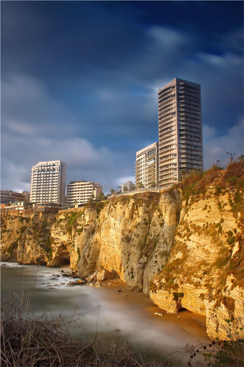 Rocky Raouché